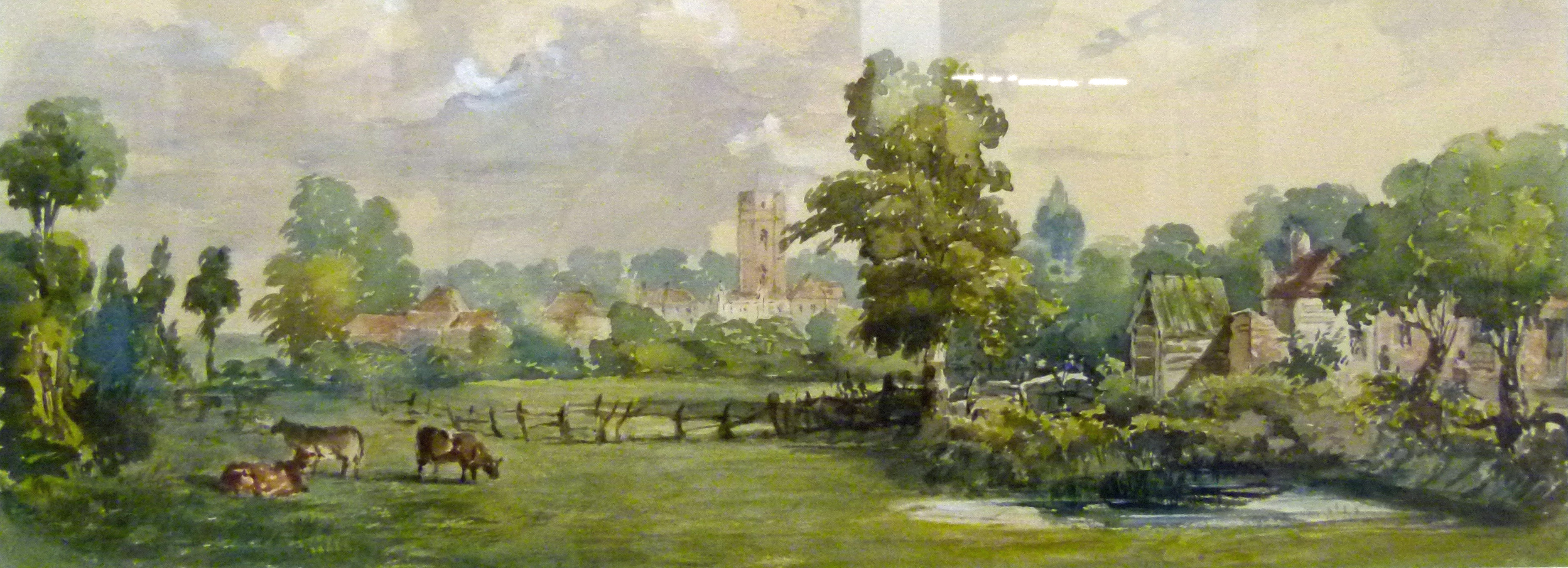 Anonymous watercolour of Plumstead Road around 1845. Part of a a temporary exhibition about Plumstead in Greenwich Heritage Centre, Woolwich, south east London, UK.